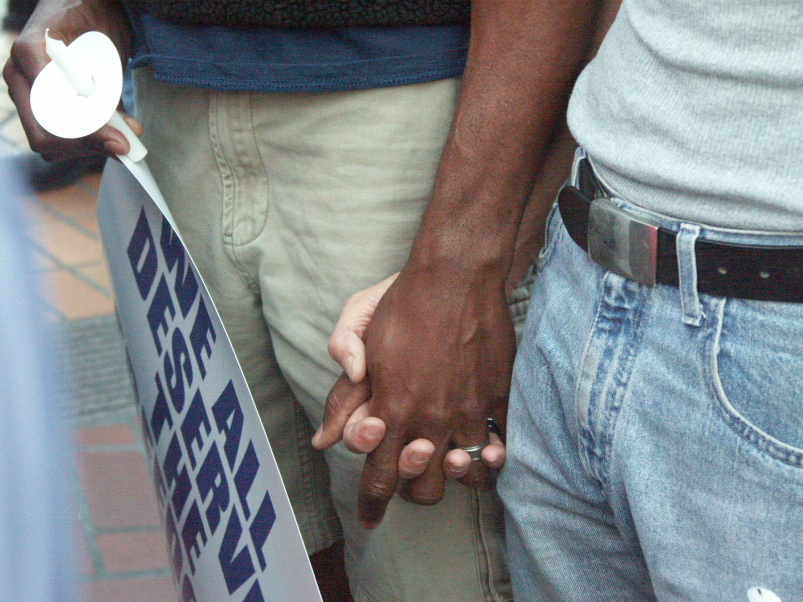 Two men in handshake during San Francisco Marriage March with banner "We all deserve the freedom to marry"